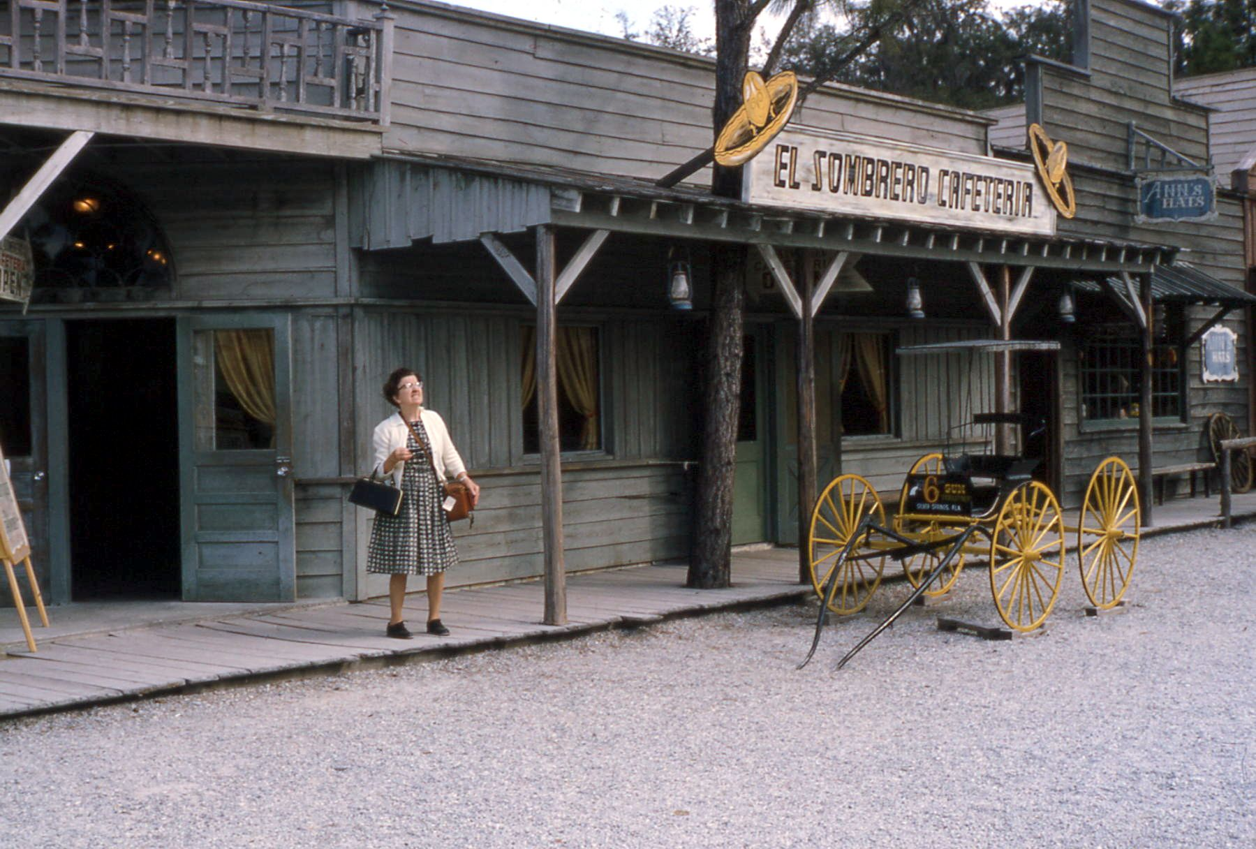 Tourists at defunct Six Gun Territory, western themed amusement park in Silver Springs, near Ocala, Florida (closed 1984)